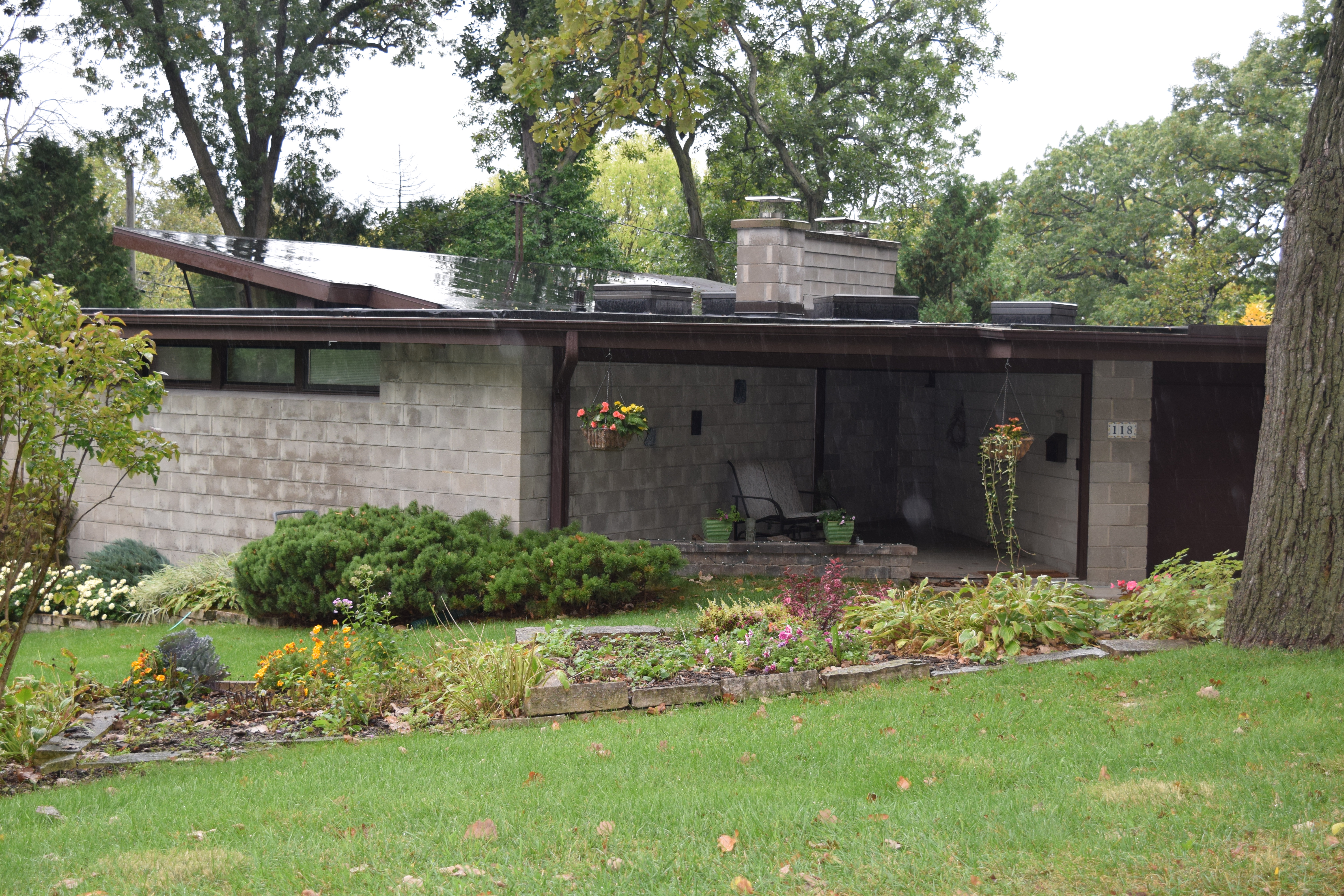 The Dr. Charles and Judith Heidelberger House, located at 118 Vaughn Ct. in Madison, Wisconsin.